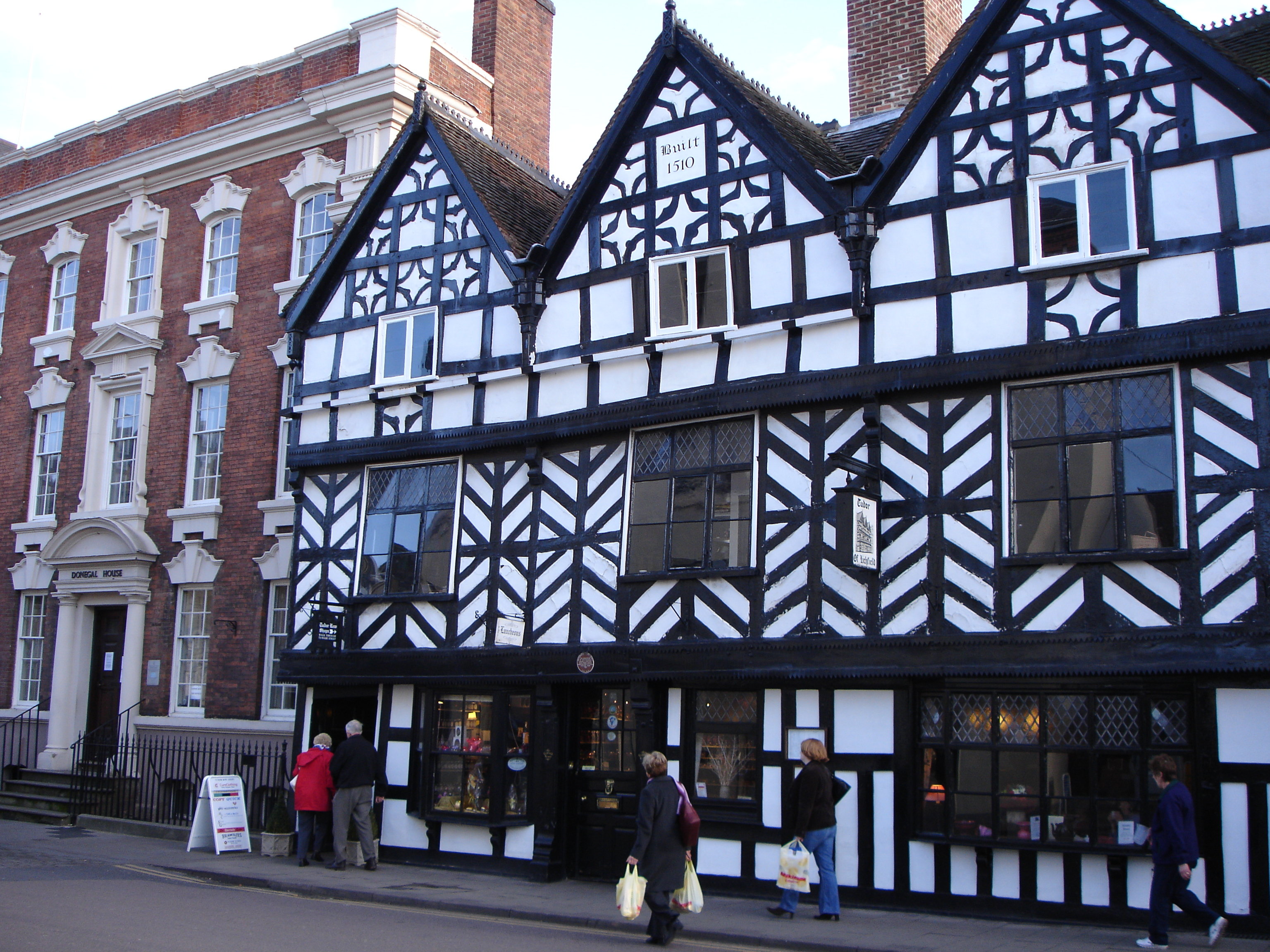 Created Feb 2006